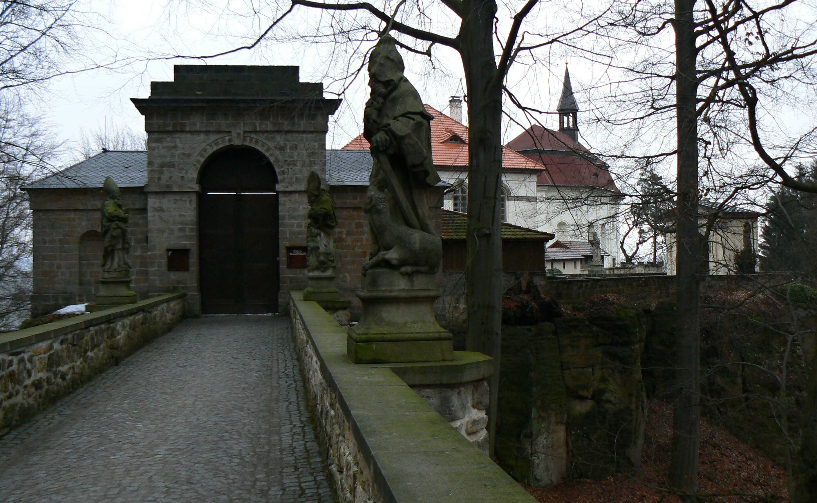 Valdštejn Castle in Rock city and in Hruboskalsko Nature Reserve, Semily District